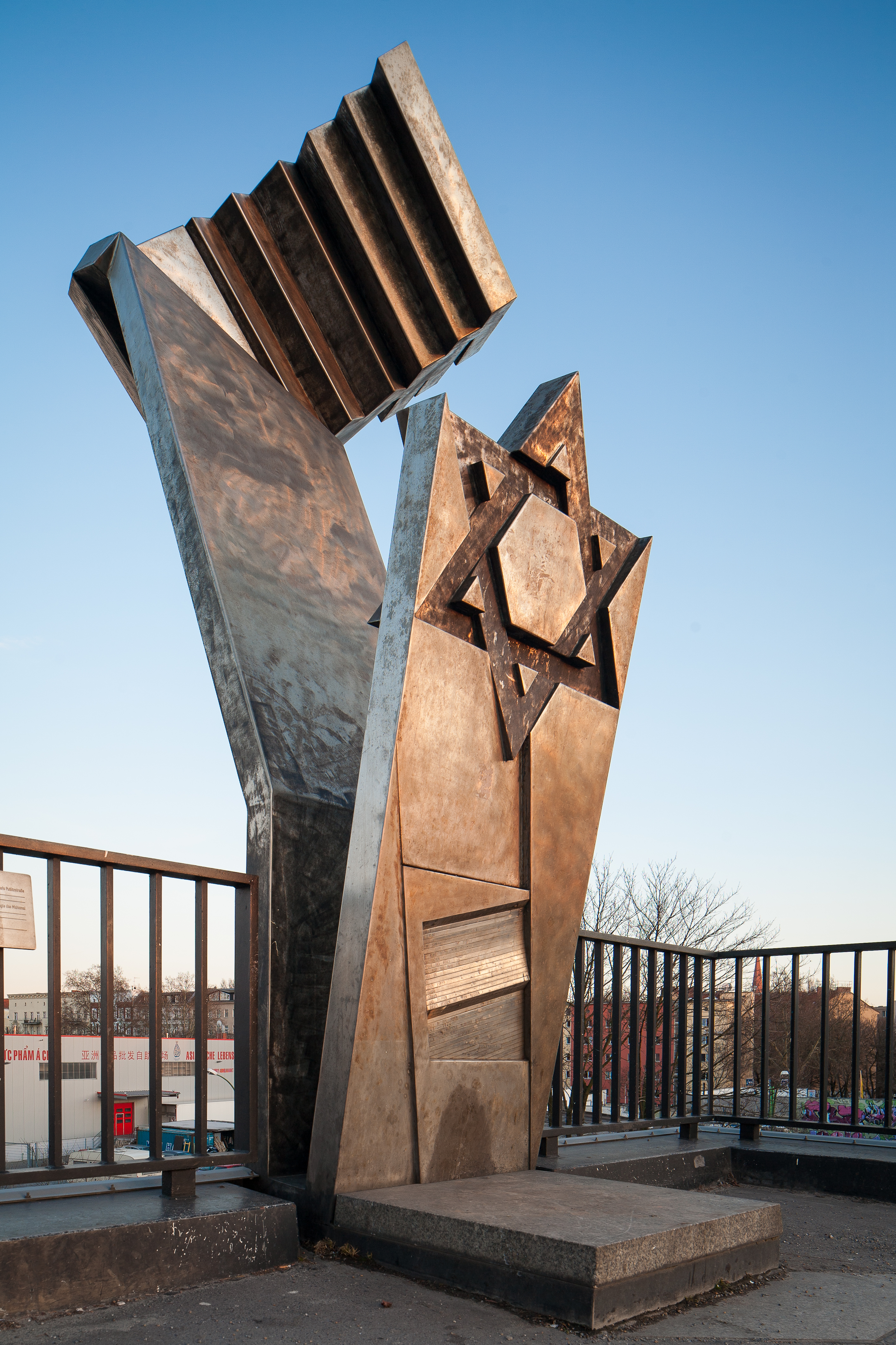 Memorial dedicated to the deported Jews during world war II. The memorial is located at Moabit railroad yard in Berlin, Germany.